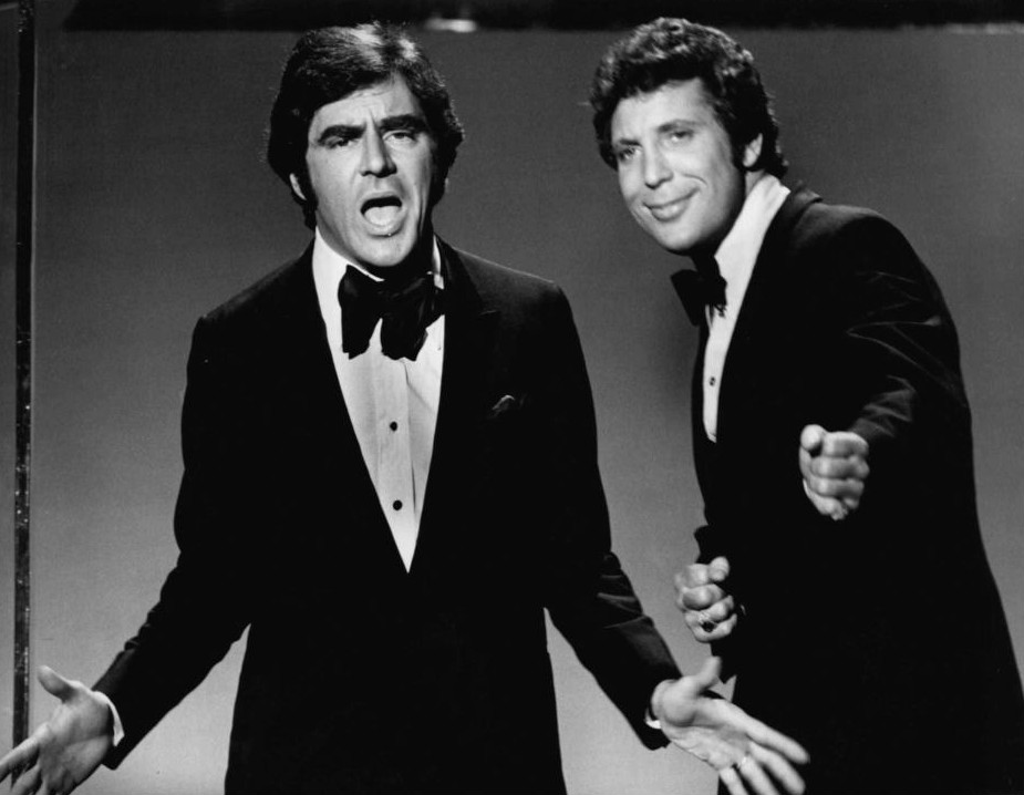 Photo of guest star Anthony Newley and Tom Jones from the television program This is Tom Jones.